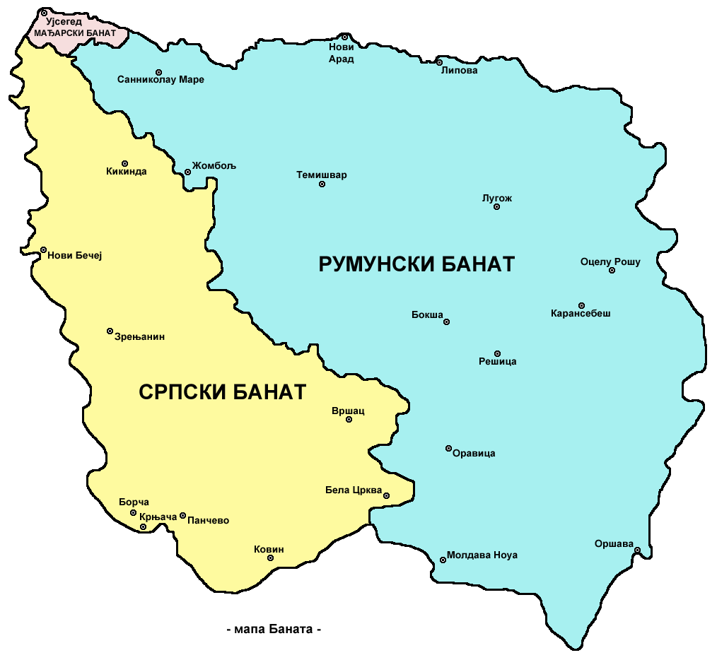 Map of Banat - Serbian language version. Serbian: Мапа Баната - верзија на српском језику. References References for historical/geographical borders of Banat and modern state borders: Školski istorijski atlas, Zavod za izdavanje udžbenika Socijalističke Republike Srbije, Beograd, 1970. Milovan Radovanović, Kosovo i Metohija - antropogeografske, istorijskogeografske, demografske i geopolitičke osnove, Beograd, 2008. Slobodan Radovanović, Geografski atlas, Magic Map, Smederevska Palanka, 2001. Školski geografski atlas, Intersistem Kartografija, Beograd, 2004. Denis Šehić - Demir Šehić, Geografski atlas Srbije, Beograd, 2007. References for sizable cities and towns: Popis stanovništva, domaćinstava i stanova u 2002., Stanovništvo, nacionalna ili etnička pripadnost - Podaci po naseljima, knjiga 1, Republika Srbija - Republički zavod za statistiku, Beograd, februar 2003.